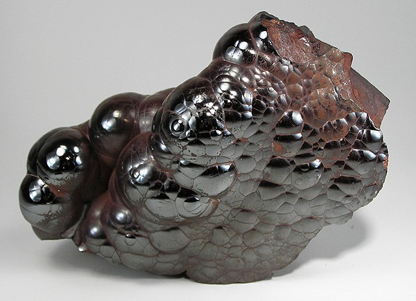 Hematite Locality: Egremont, West Cumberland Iron Field, North and Western Region (Cumberland), Cumbria, England, UK (Locality at ) Size: 13.4 x 9.0 x 6.2 cm. The classic "kidney ore" hematite from England (so called because of its frequent similarity to a kidney in form) often forms really unusual and pretty specimens, but only rarely does it have this shocking luster to it - like metal. Probably it is very slightly buffed as so many were by the miners back in the late 1800s and early 1900s when most were collected.